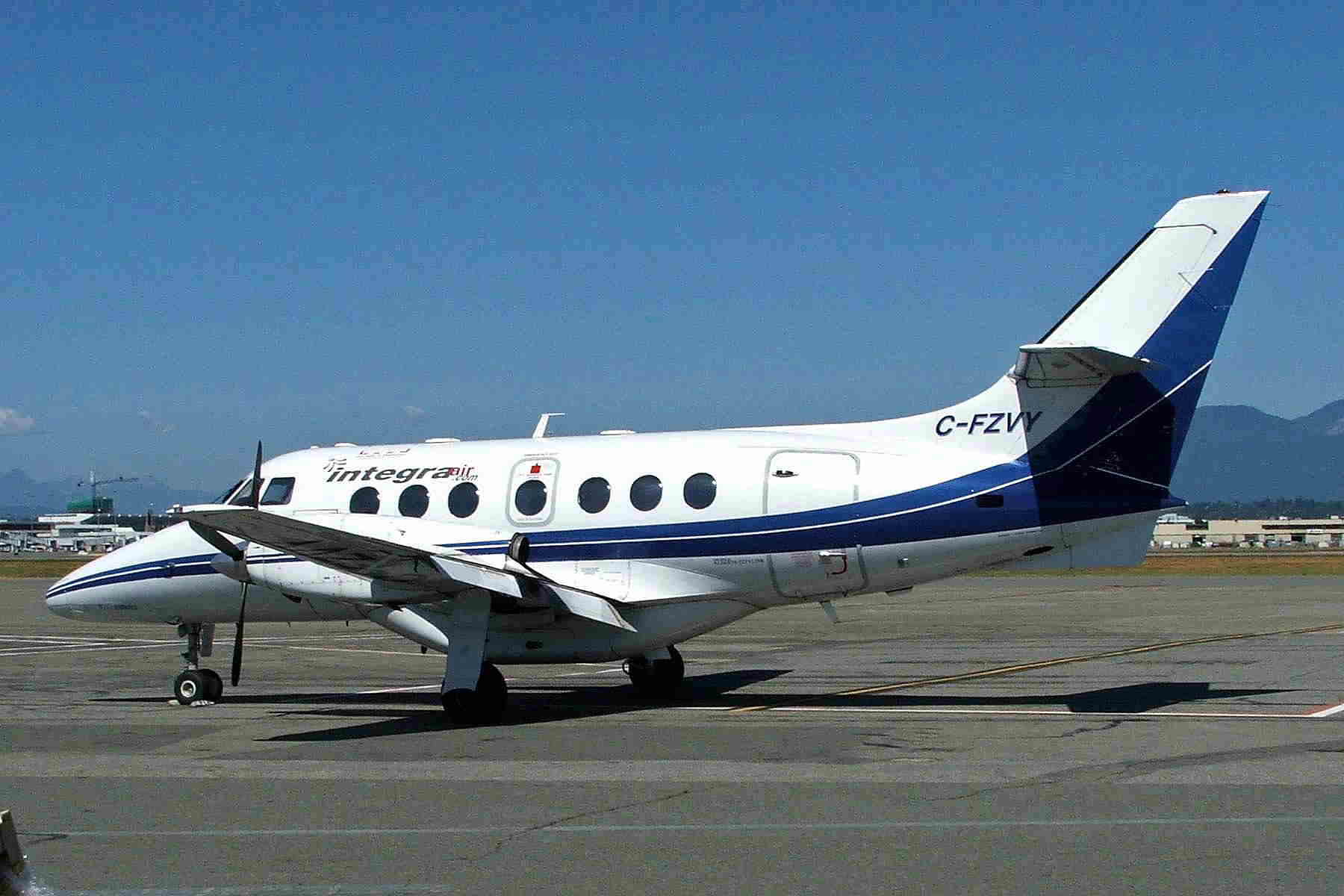 Still in service in Canada in early 2012, with Alberta Citylink I think. Jetstream's are fairly rare in Canada